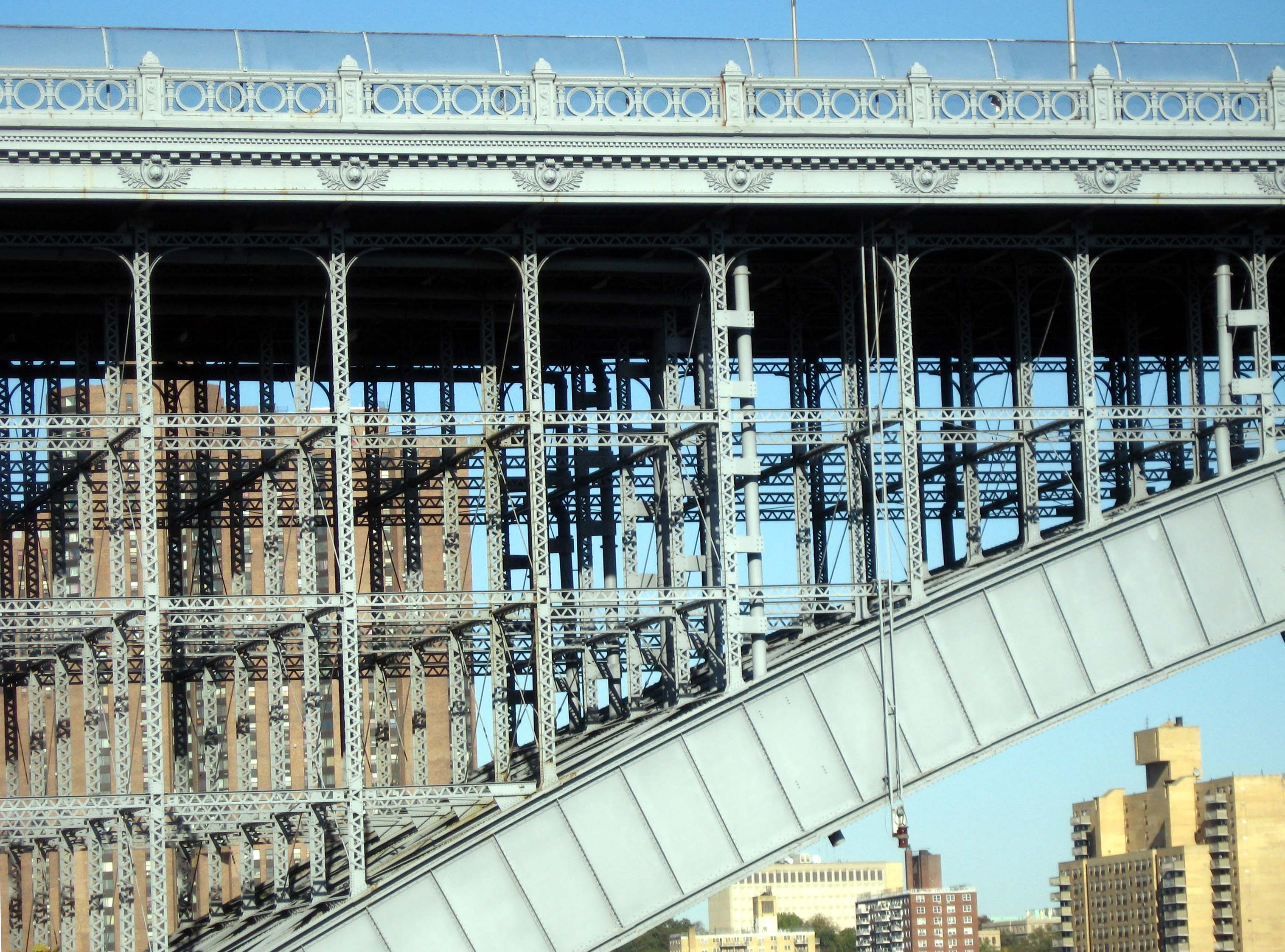 Looking north and up at unusual square truss between arch and deck of Washington Bridge on a sunny midday. See also File:Wash Br Harlem south jeh.JPG